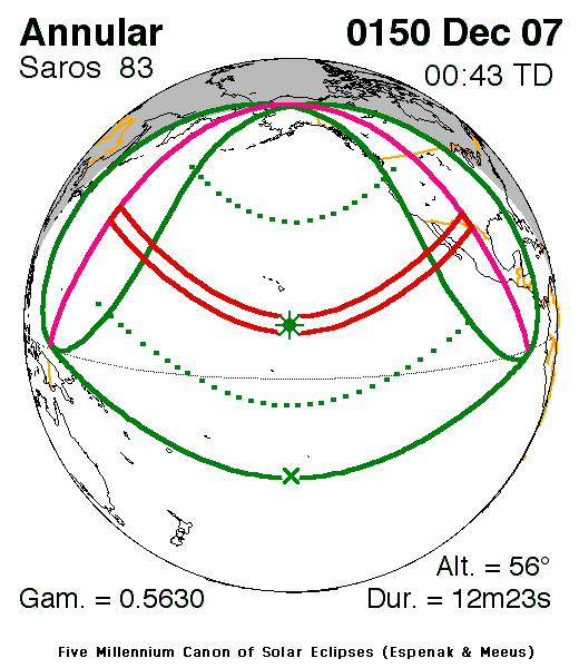 Eclipse Predictions by Fred Espenak, NASA/GSFC". Prediction for 07 December, 150